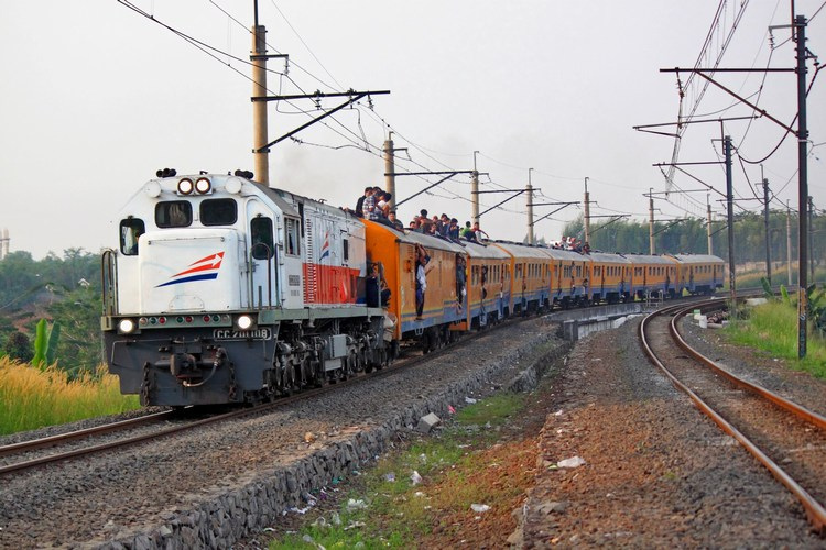 The diesel locomotive CC 201-108 with a passenger train filled with train surfers in Indonesia.